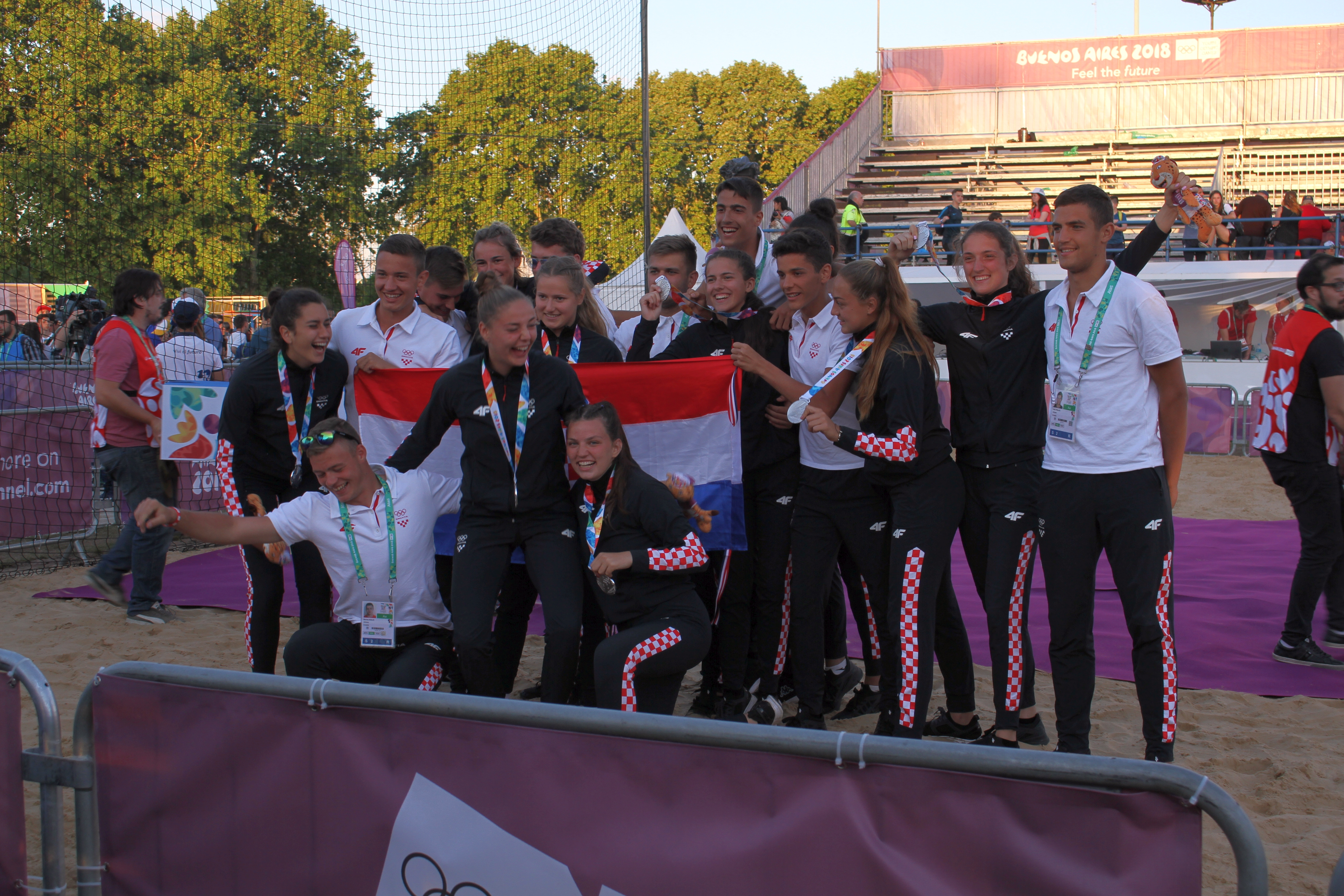 Beach handball at the 2018 Summer Youth Olympics in Buenos Aires at 13 October 2018 – Medal Ceremonies